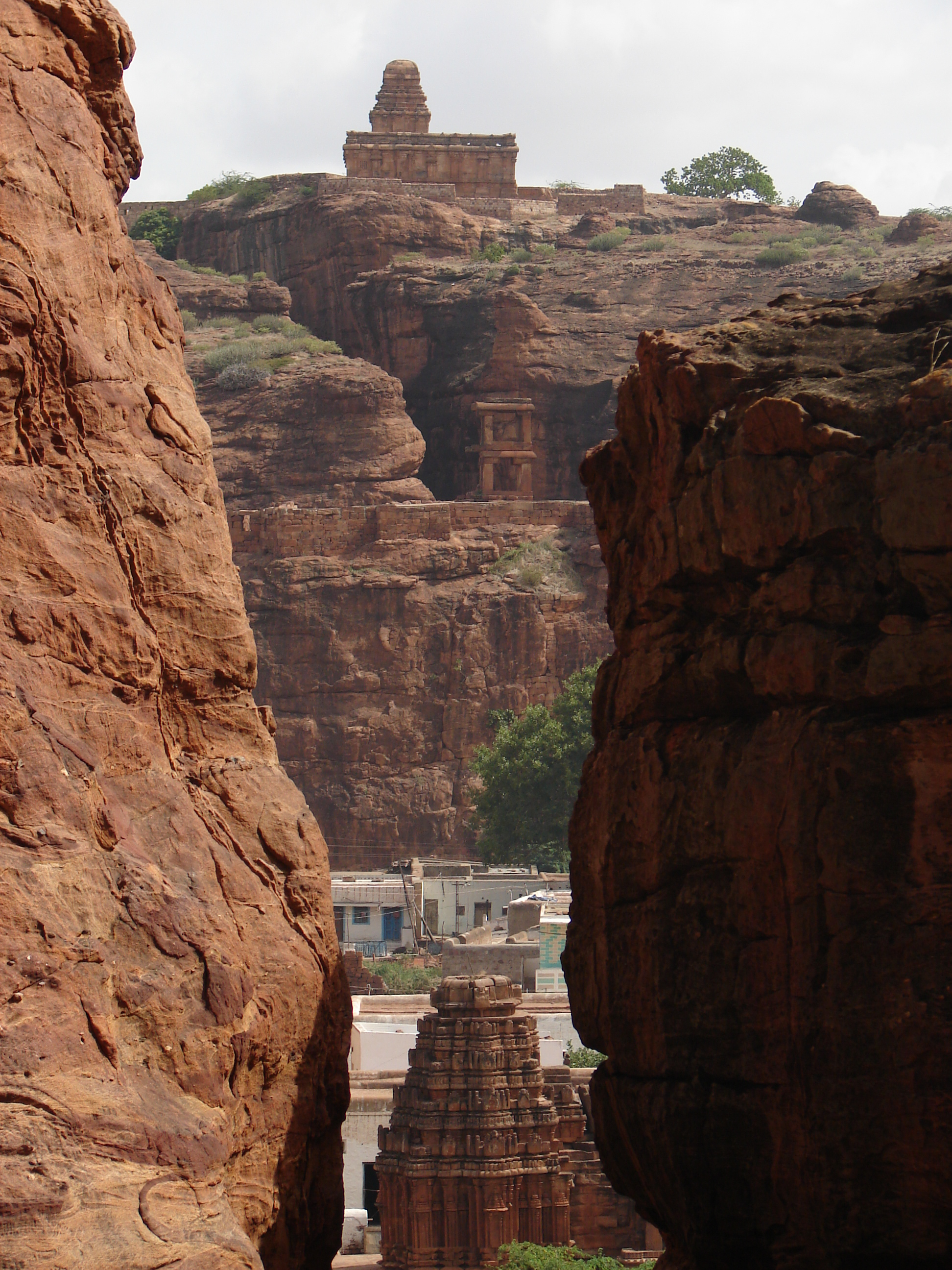 This photograph was taken by me from the Badami cave temples, Karnataka state, India. The Malegitti Shivalaya temple was built in the early 8th century, during reign of the Badami Chalukya dynasty, while the Yellamma temple belongs to the 11th century Western (Kalyani) Chalukya period.